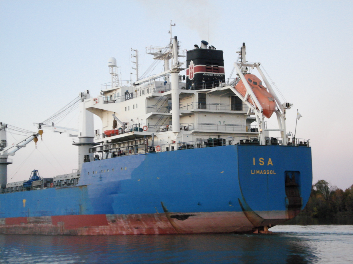 Isa of Polsteam (Polska Żegluga Morska) transiting the Welland Canal, just north of St. Catharines Skyway bridge. Photo taken on October 7, 2006.